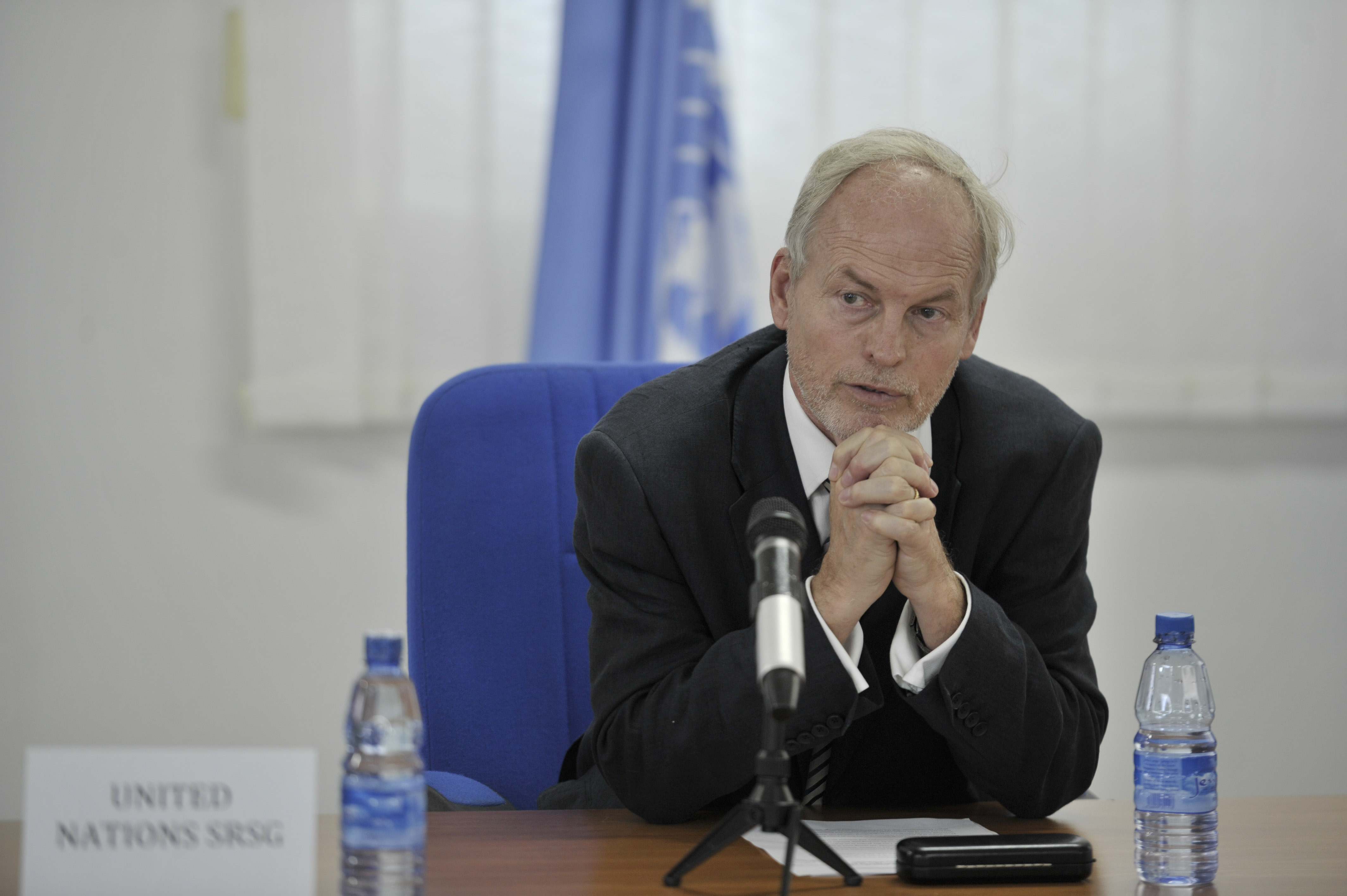 Nicholas Kay,UN Special Representative to the Secretary General, answers questions during an event held on 9th April by the European Union and UNMAS to declear Central Mogadishu free of Unexploded Ordnance. AU/UN-IST PHOTO / David Mutua